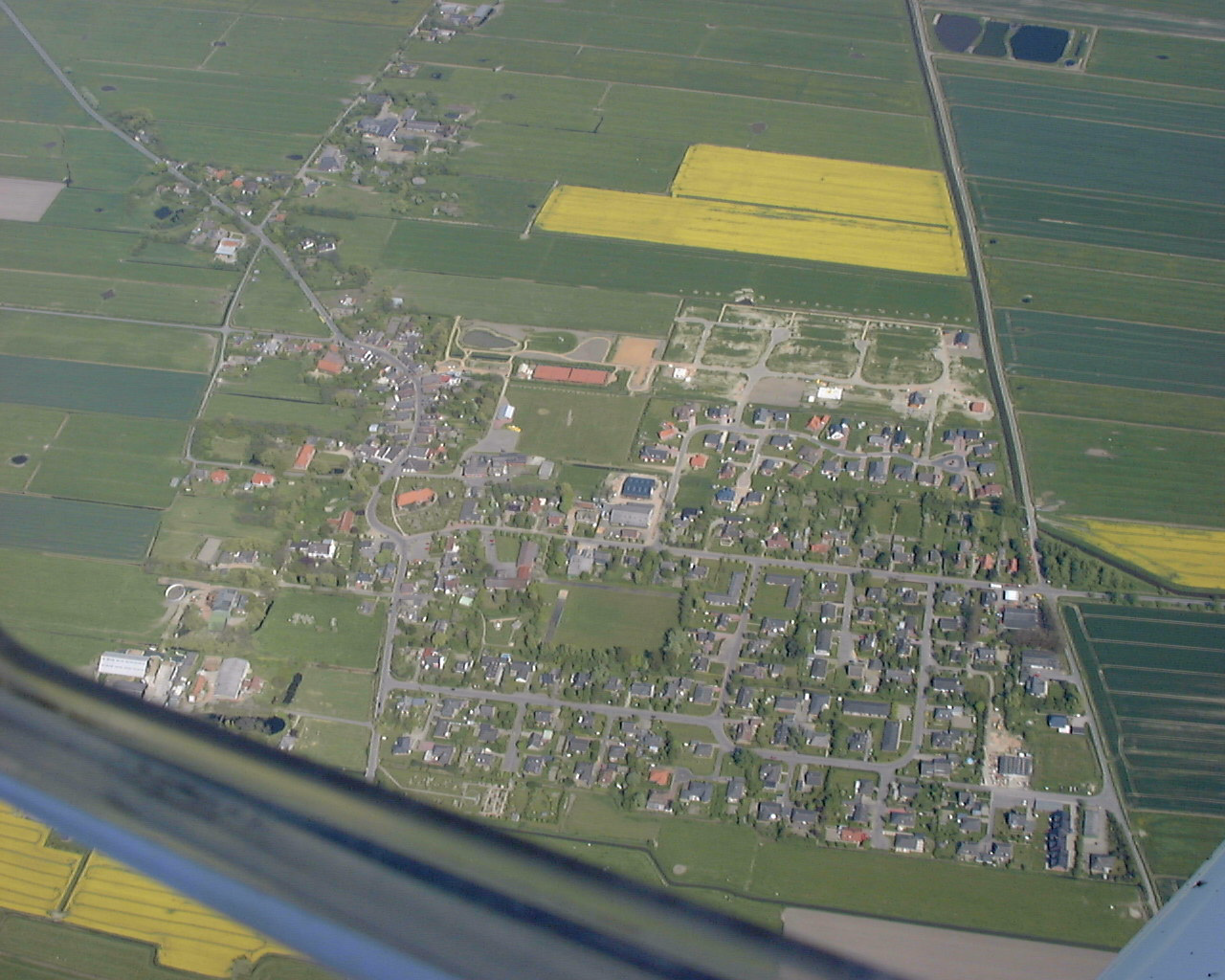 aerial view Witzwort village